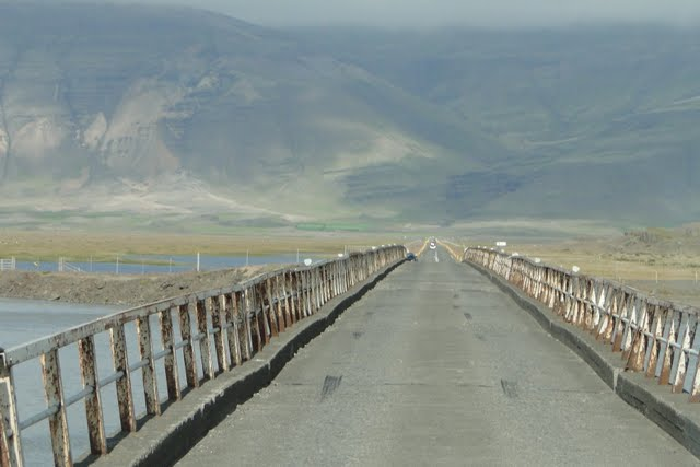 Route 1, Iceland